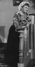 Perla Achaval-actriz